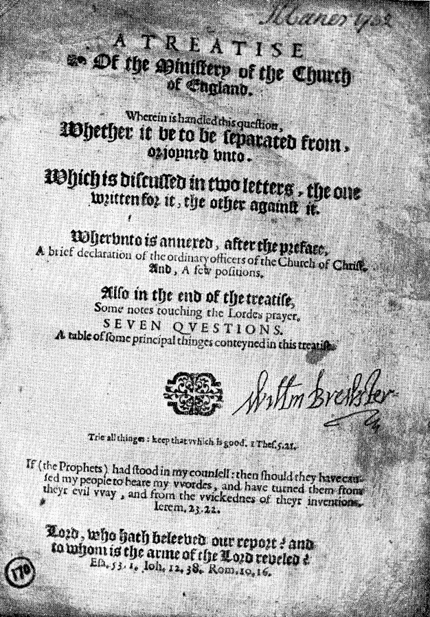 Title page from A Treatise of the Ministry of the Church of England," written by Arthur Hildersham and Francis Johnson, ca. 1595, publisher unknown (Netherlands?), bearing an inscription of William Brewster, and where the full title reads: "A treatise of the ministry of the Church of England. / Wherein is handled this question, whether it be to be separated from or joyned unto, which is discussed in two letters, the one writted for it, the other against it. / Whereunto is annexed, after the preface a brief declaration of the ordinary officers of the Church of Christ, and a few positions. / Also in the end of the treatise, some notes touching the Lordes prayer, seven questions. / A table of some principal thinges conteyned in this treatise."